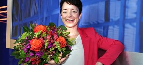 Inga Bremer Gewinnerin Dokuwettbewerb 2014